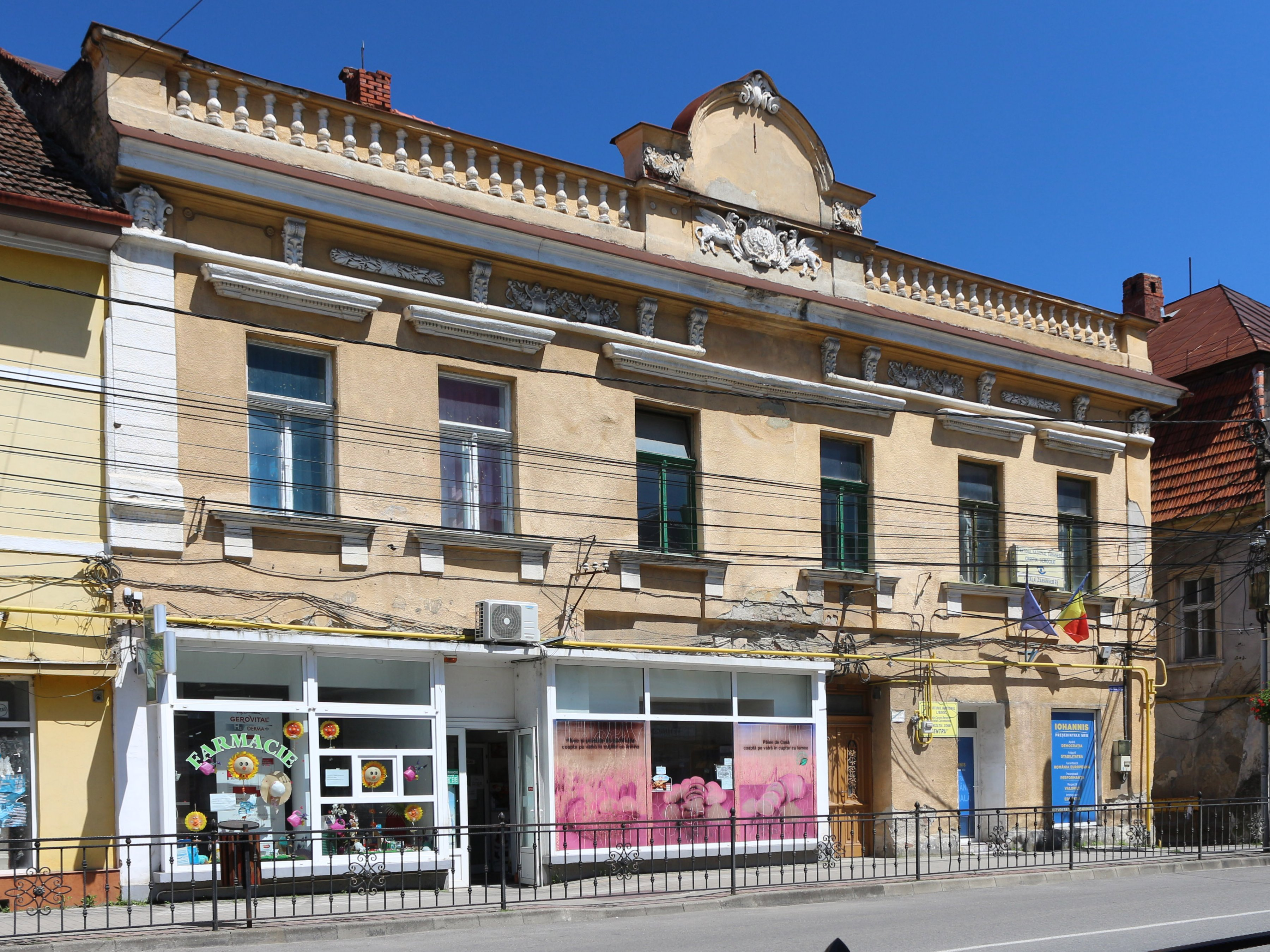 Laboncz House, Caransebeș, Mihai Viteazul St., no. 31, built 18th century.